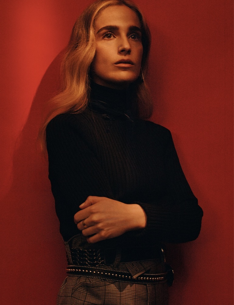 Jessica Yatrofsky is making it